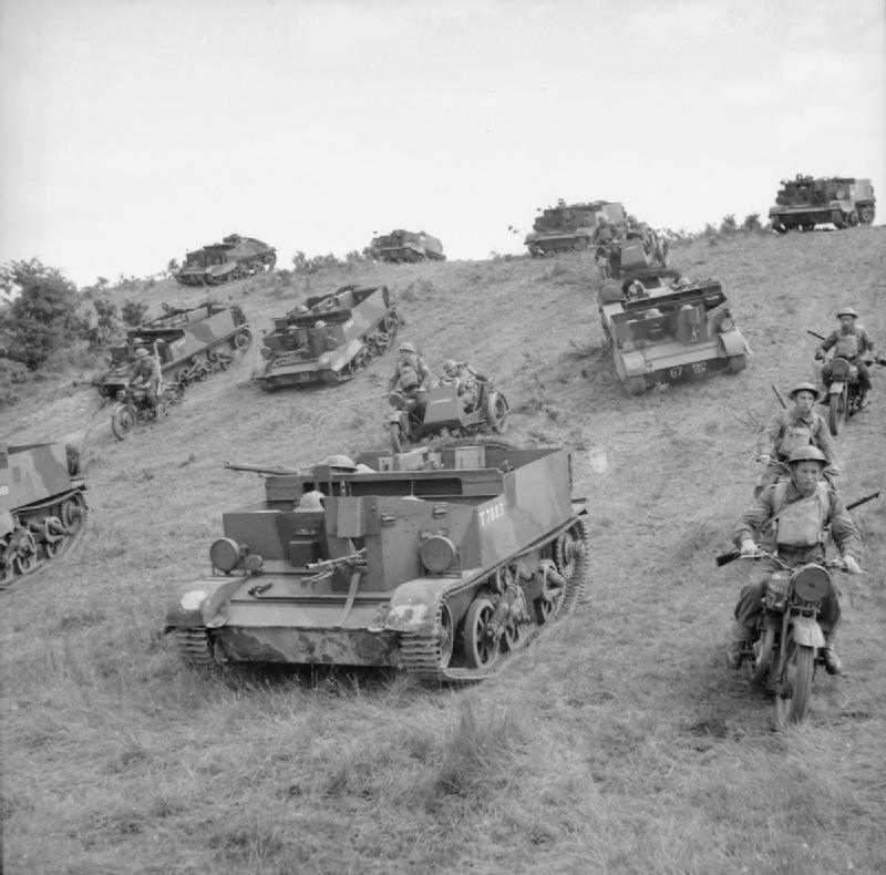 The British Army in the United Kingdom 1939-45 Universal carriers and motorcycles of 4th Battalion, The Welch Regiment, on manoeuvres at Keady in County Antrim, Northern Ireland, 22 July 1941.